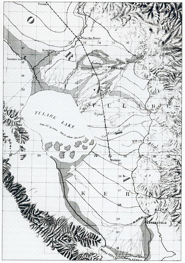 1874 map of the former Tulare Lake and its tributaries — in the 19th century San Joaquin Valley, central California. It was the largest fresh water lake west of the Great Lakes in North America, until diversions and draining destroyed it by the early 1900s. Site is in present day Kings County.